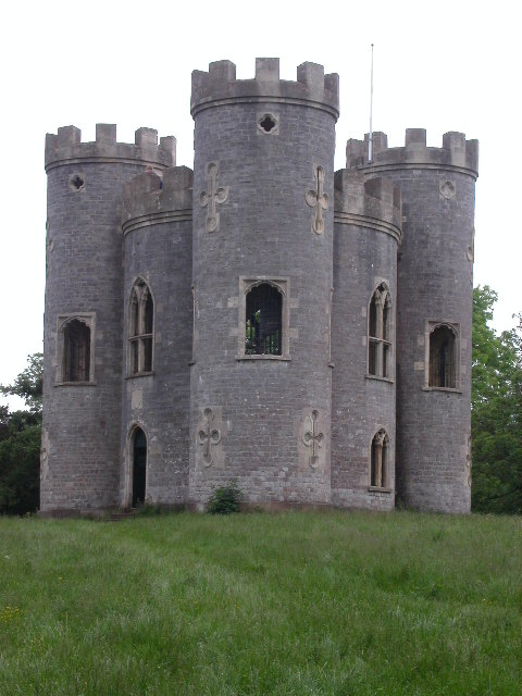 Blaize Castle, Bristol